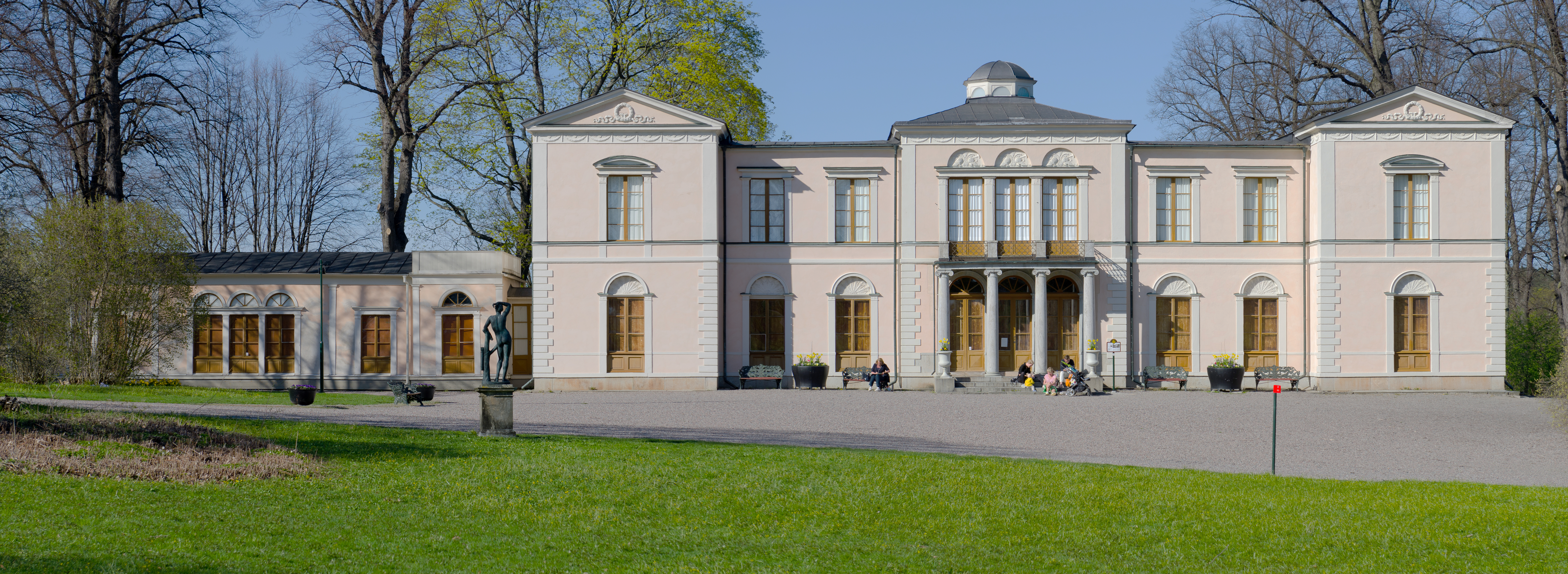 Rosendals slott (Rosendals palace). Panorama from 2 images.